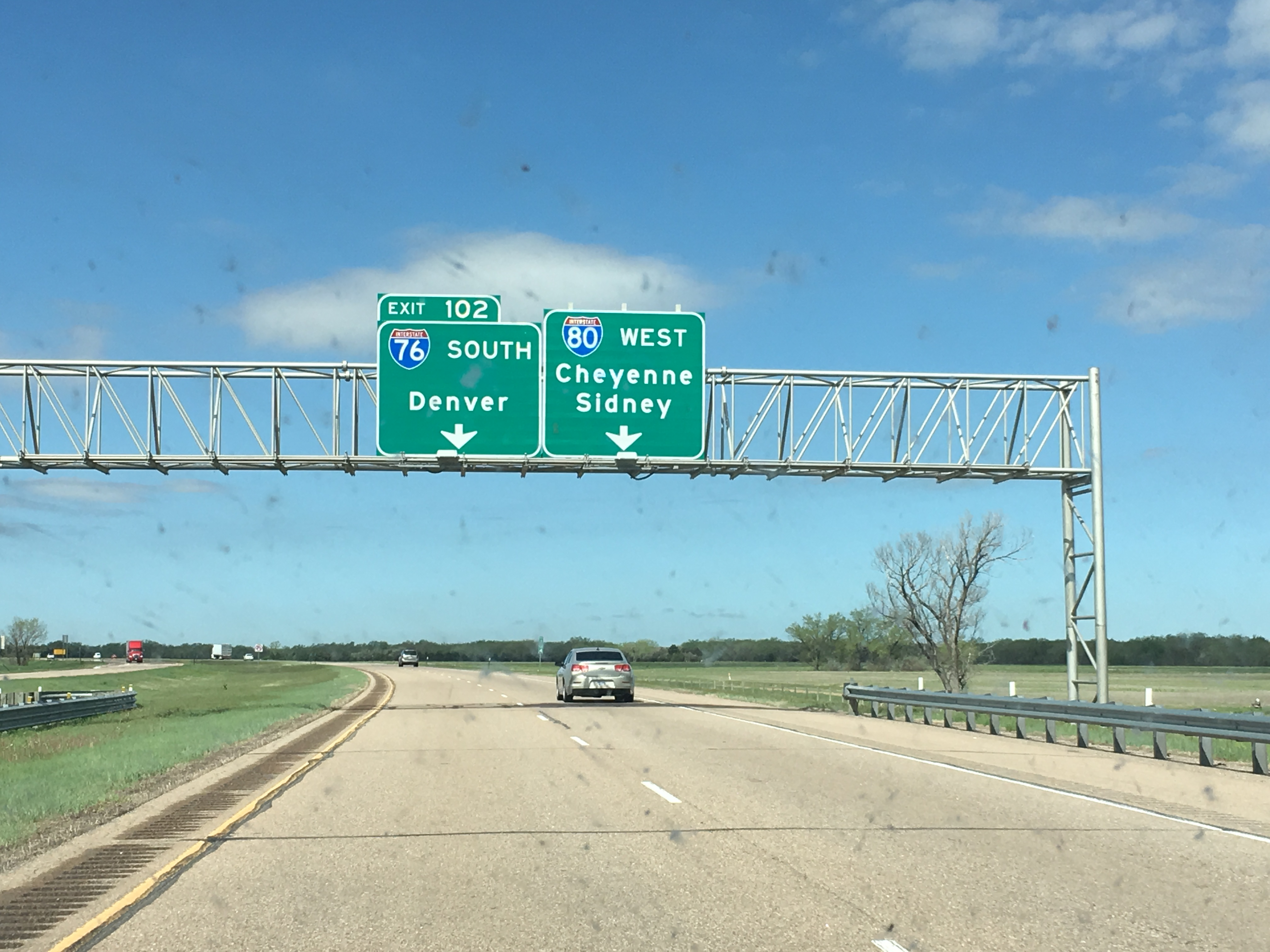 Sign showing I76 signed south in Nebraska